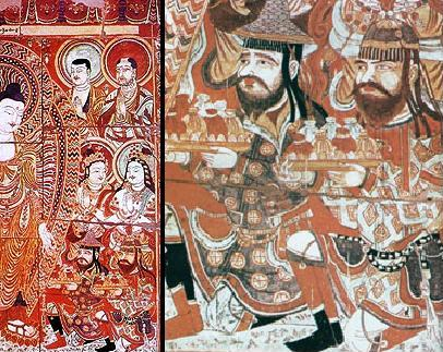 9th century fresco from the Bezeklik Thousand Buddha Caves near Turfan, Xinjiang, China. Two details from Praņidhi scene no. 6 in Temple no. 9. According to Mariachiara Gasparini, the men depicted to the righthand side (one with a black beard and hair, the other with red hair and beard) are ethnic Sogdians (an Eastern Iranian people), wearing silk robes with embroidery patterns that were typical of contemporary textiles from Turfan, Xinjiang, China: Gasparini, Mariachiara. "A Mathematic Expression of Art: Sino-Iranian and Uighur Textile Interactions and the Turfan Textile Collection in Berlin," in Rudolf G. Wagner and Monica Juneja (eds), Transcultural Studies, Ruprecht-Karls Universität Heidelberg, No 1 (2014), pp 134-163. ISSN: 2191-6411. See also endnote #32. (Accessed 3 September 2016.)